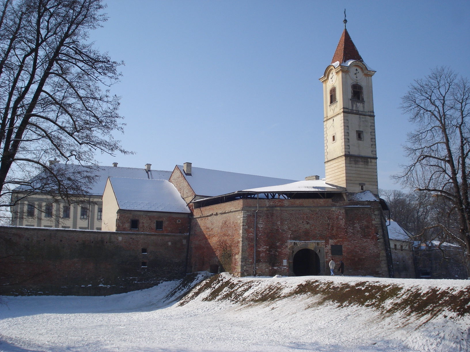 Zrinski Castle in Čakovec in winter - east by northeast view